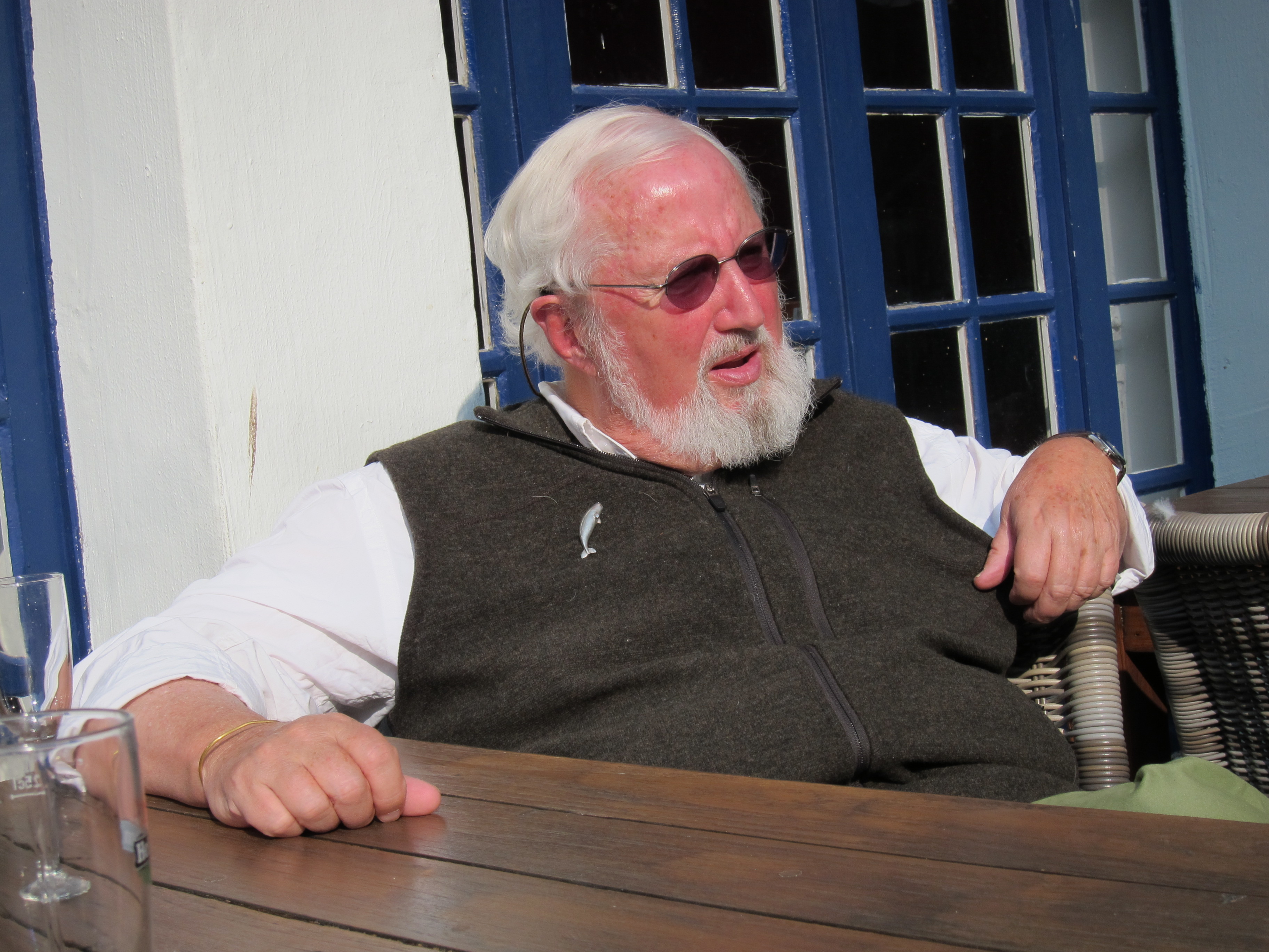 Peter Neill is Director of the World Ocean Observatory and is author of numerous books and essays on environmental and ocean issues. His most recent book is "THE ONCE AND FUTURE OCEAN: Notes Toward a New Hydraulic Society."